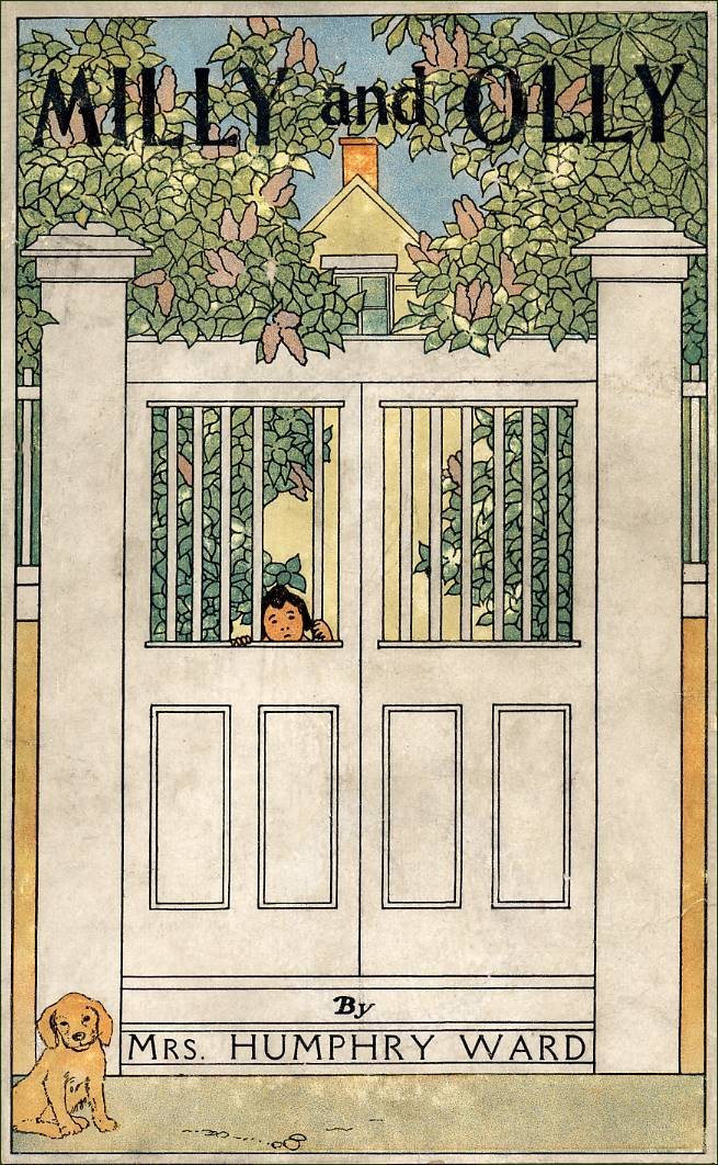 The cover of Milly and Olly, by Mary Augusta Ward and illustrated by Ruth M. Hallock. Published by Doubleday, Page & Company in 1914.